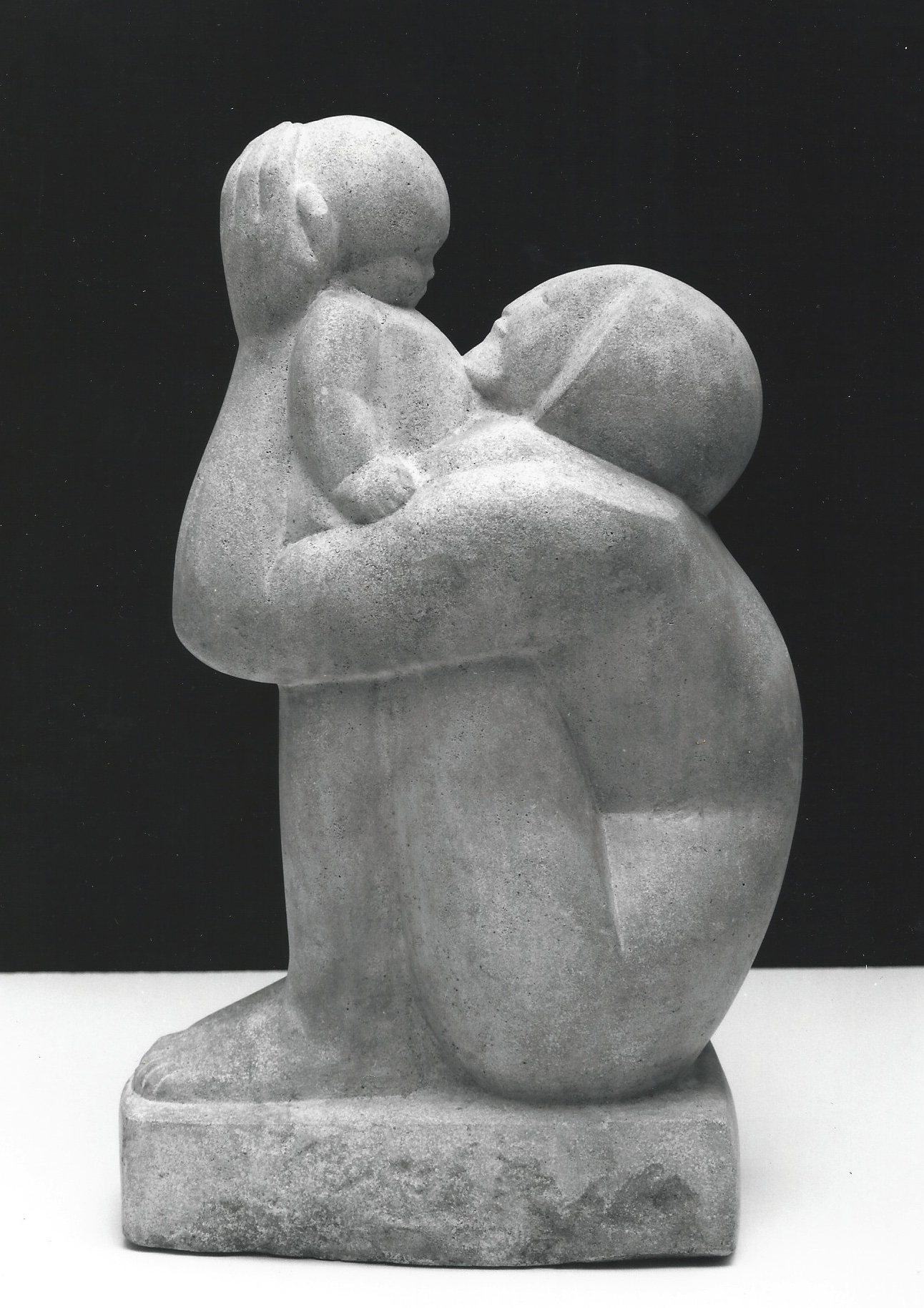 Stone sculpture in direct cutting representing the artist's wife sitting on the floor with her daughter on her knees, realised by american sculptor Cecil Howard in 1918. Bearing the final cubist experiments of the artist, the statue is presented in 1919 at the Paris Salon des Beaux-Art, and later bought by the Whitney Museum of New York.